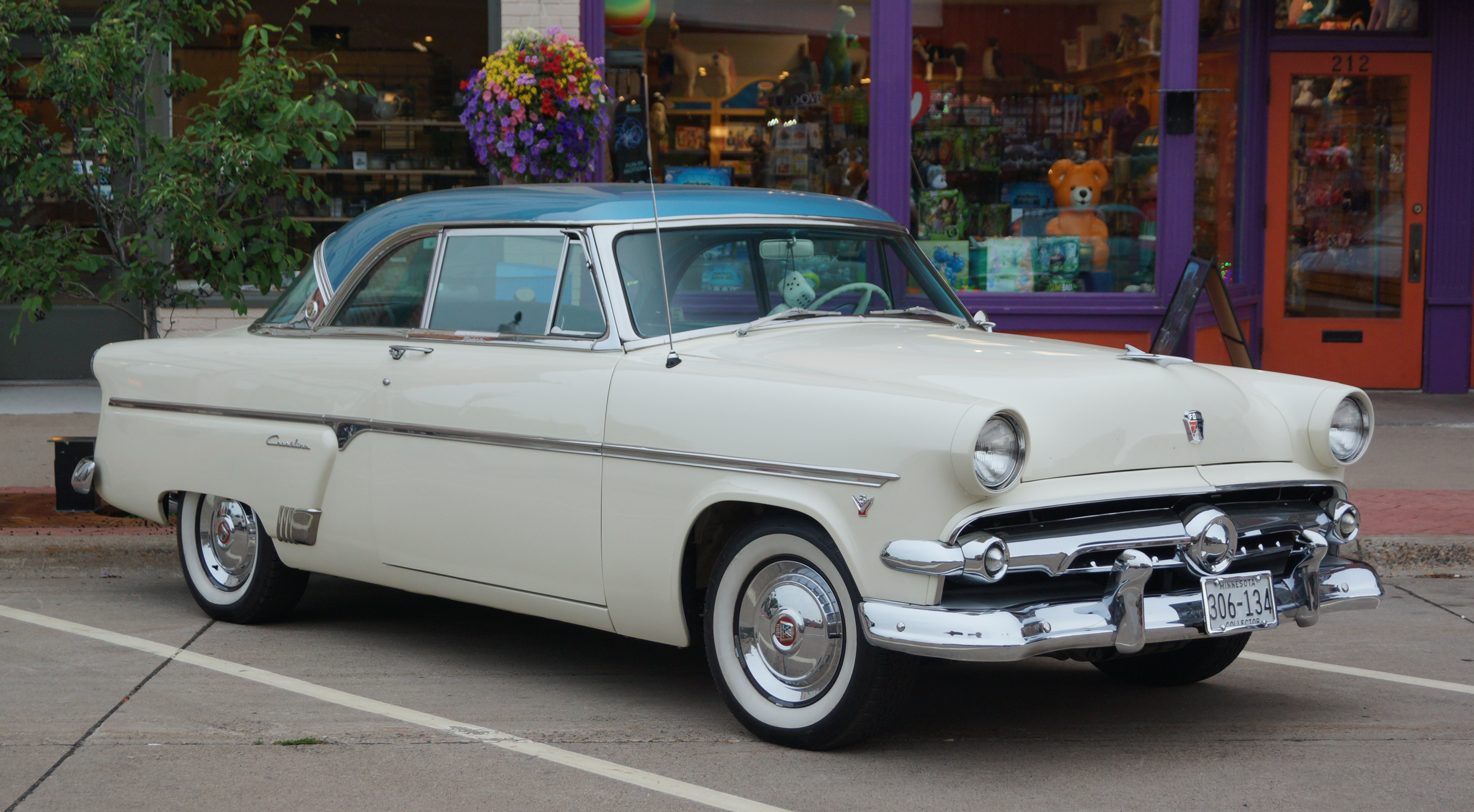 HISTORIC DOWNTOWN HASTINGS CRUISE-IN & CLASSIC CAR SHOW Hastings, Minnesota June 30, 2018 Click here for previous Hastings Cruise Night pictures Click here for more car pictures at my Flickr site. Or here for my Car Crazy Tumblr site. Or on Twitter @DVS1mn.